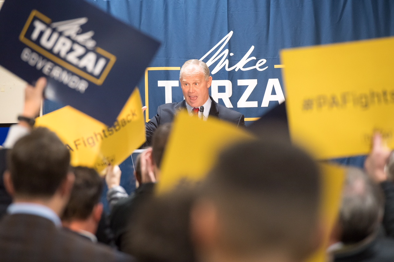 A campaign rally for Pennsylvania 2018 gubernatorial candidate Mike Turzai.